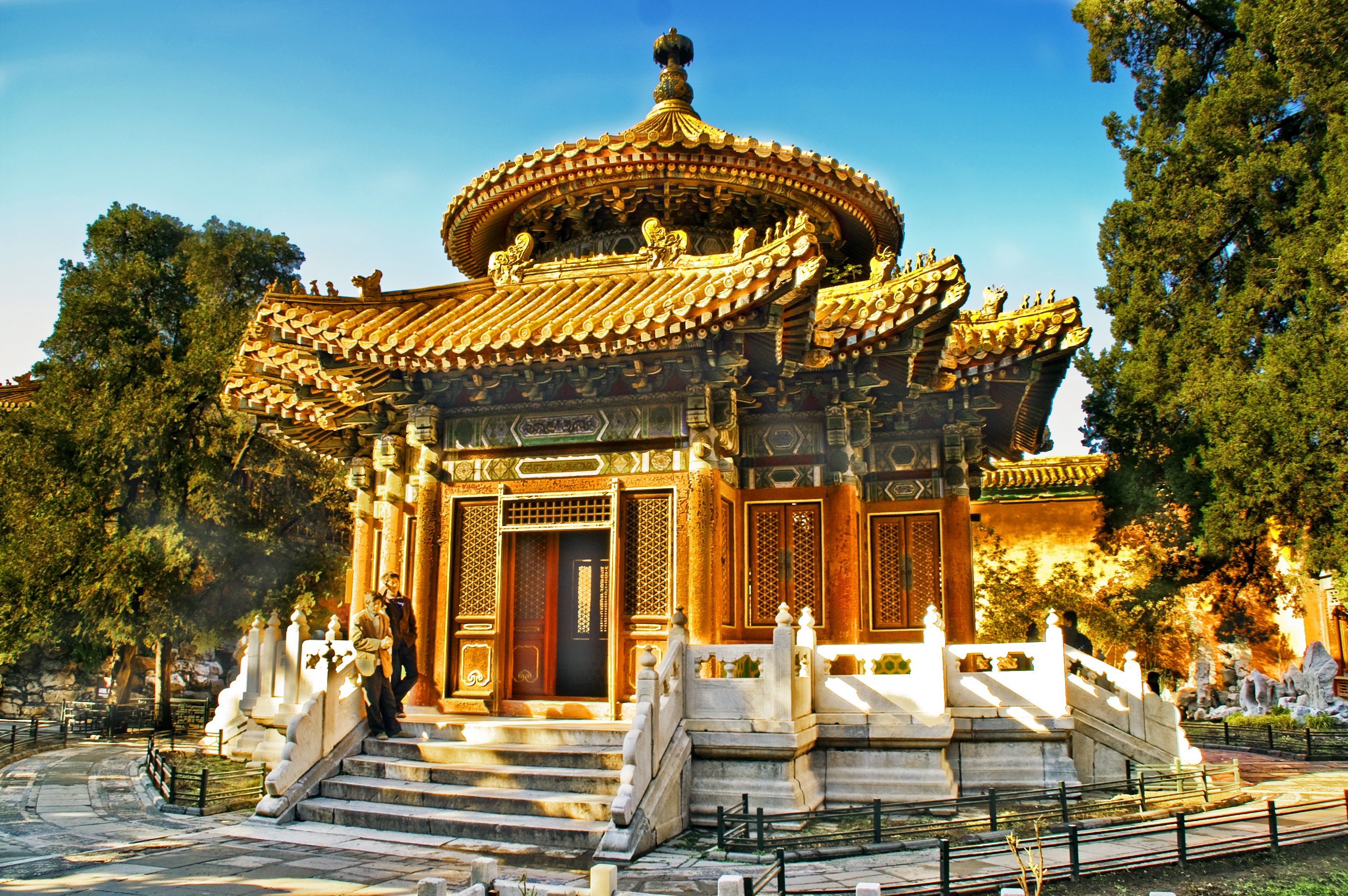 The Forbidden City in Beijing